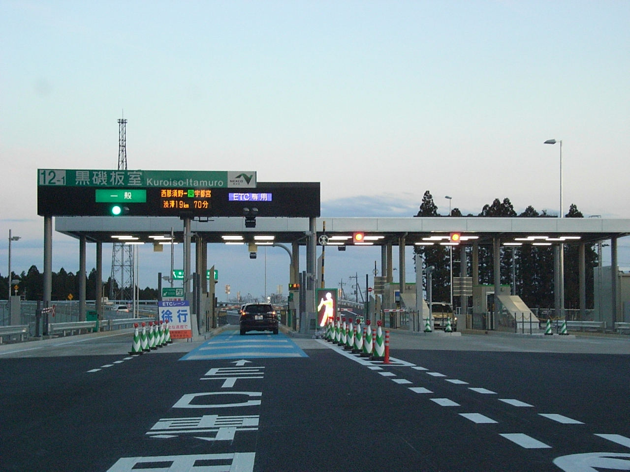 Kuroiso-Itamuro IC on Tohoku EXPWY (Kanosaki,Nasushiobara-shi,Tochigi-ken,JAPAN)